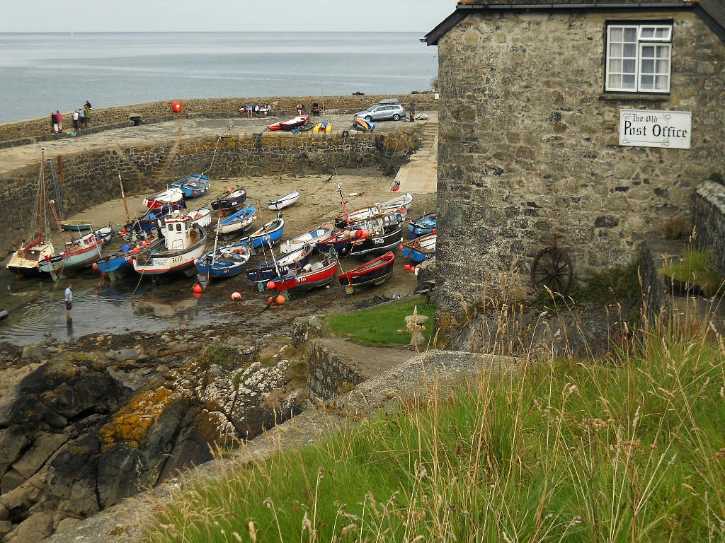 coverack harbour, cornwall